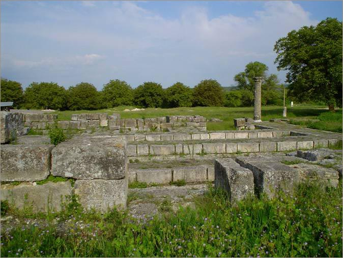 Remains of the palace in Veliki Preslav.